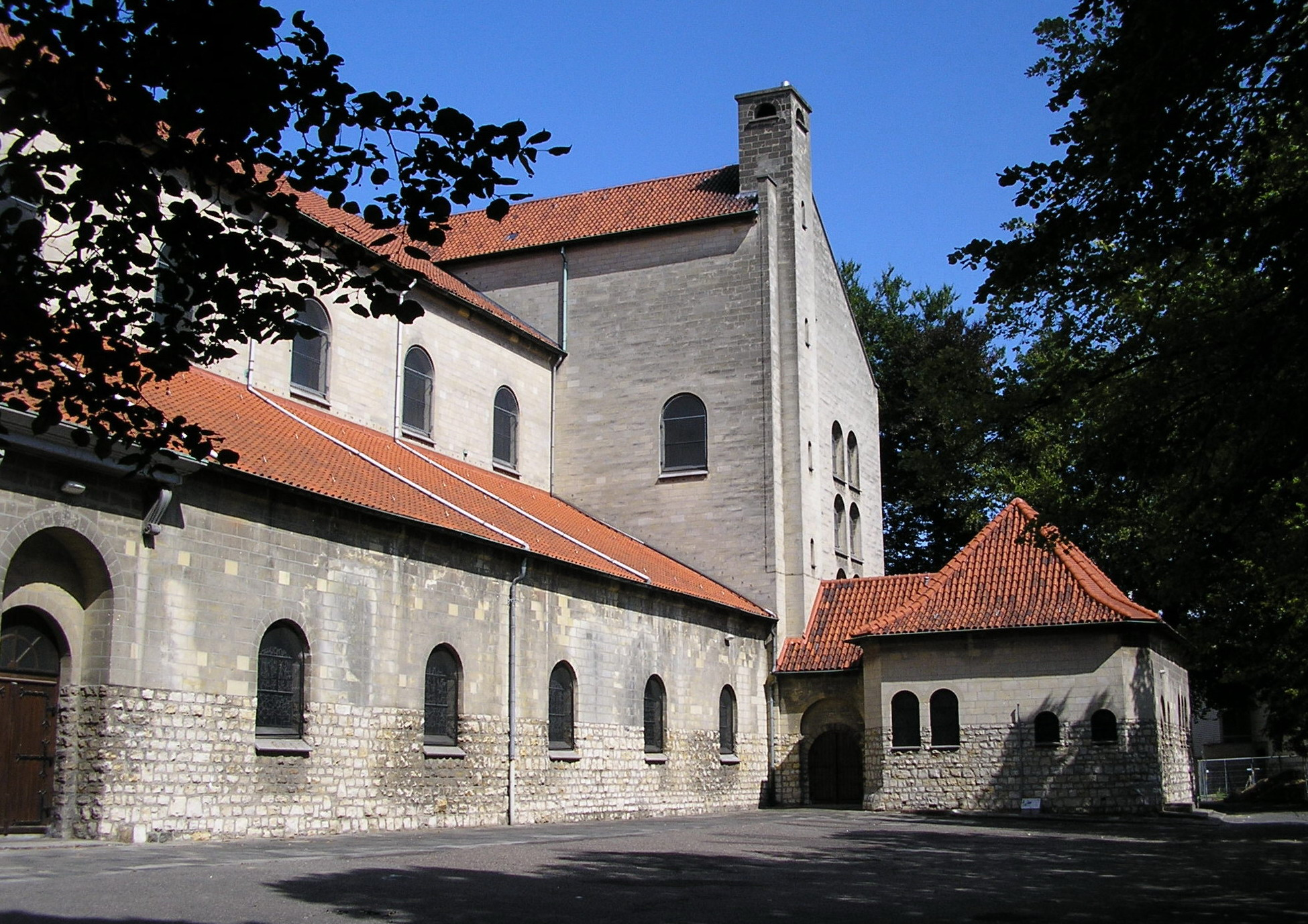 Church "Onze-Lieve-Vrouw-van-Lourdes", by Frits Peutz, Maastricht, the Netherlands